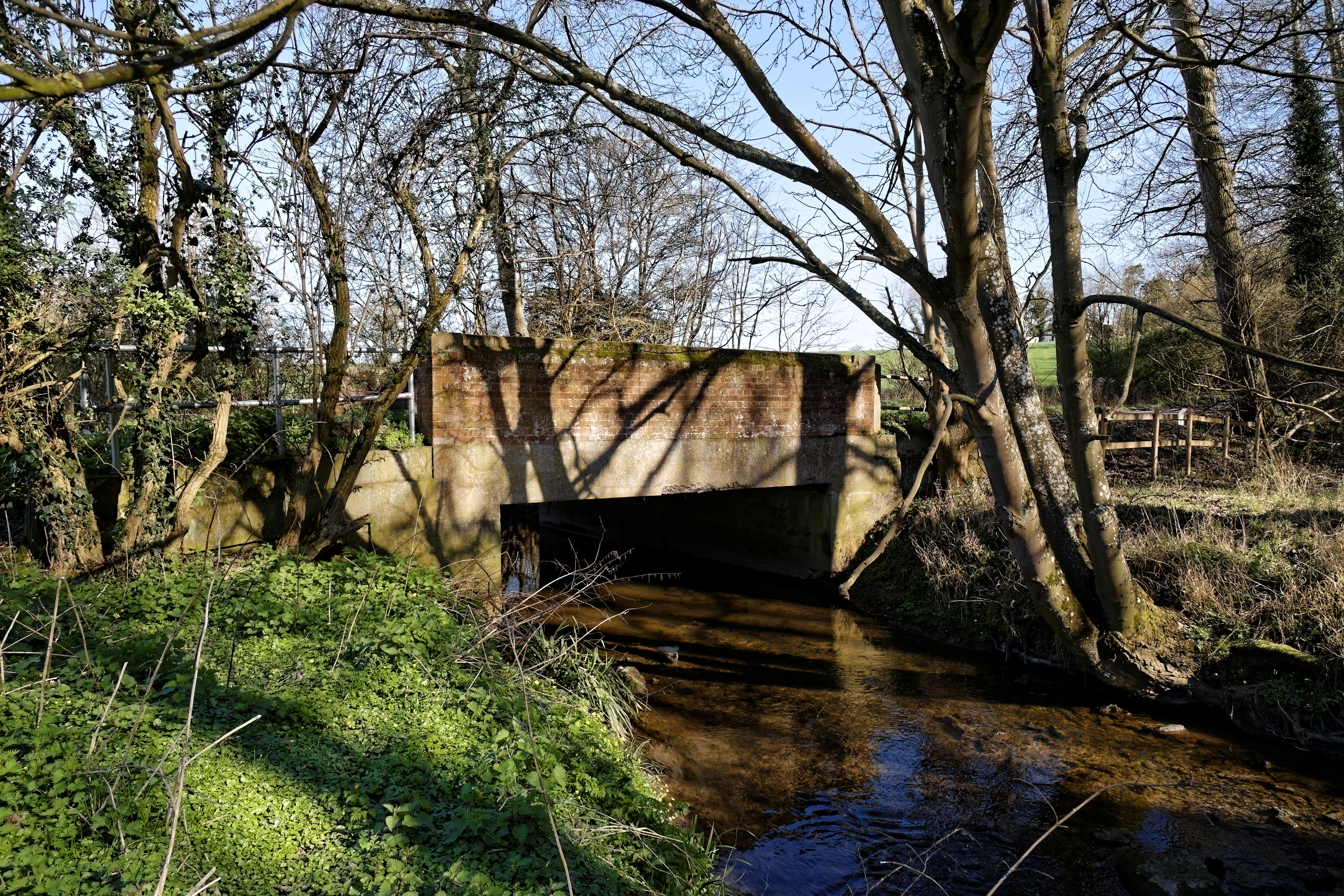 Matching Road bridge (and riverside nettles), over Pincey Brook, to the south of Hatfield Heath village, and bordering the Down Hall estate, in Essex, England.Camera: Canon EOS 6D with Canon EF 24-105mm F4L IS USM lens.Software: RAW file lens-corrected, optimized and downsized with DxO OpticsPro 11 Elite, Viewpoint 3, and Adobe Photoshop CS2.